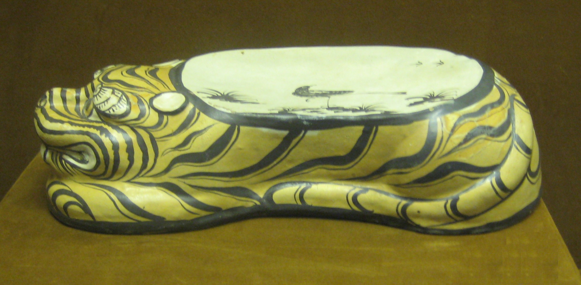 Tiger-shaped pillow with bird design painted in black and brown on white slip coating. Jin Dynasty (1115-1234). Changzhi ware (長治窯), Shanxi. Originally from the collection of Mr Yeung Wing Tak 楊永德; now held on permanent exhibition at the Museum of the Mausoleum of the Nanyue King, Guangzhou, China.